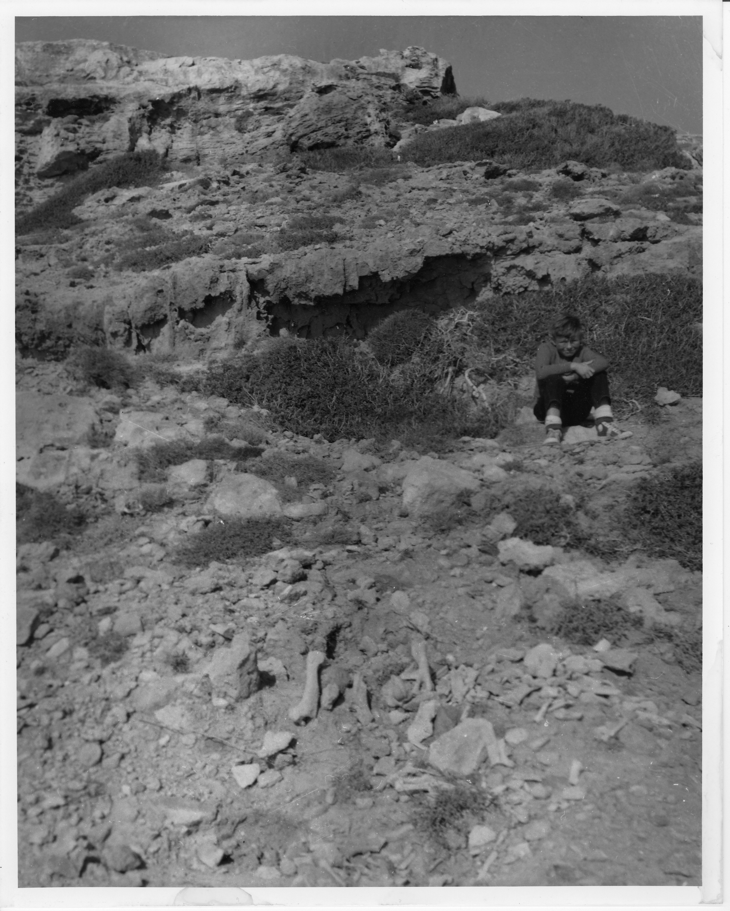 Aetokremnos site, Akrotiri, Cyprus- taken on discovering the site in 1960 - photographer's brother as scale- fossil bones in foreground. Excavated from 1987.